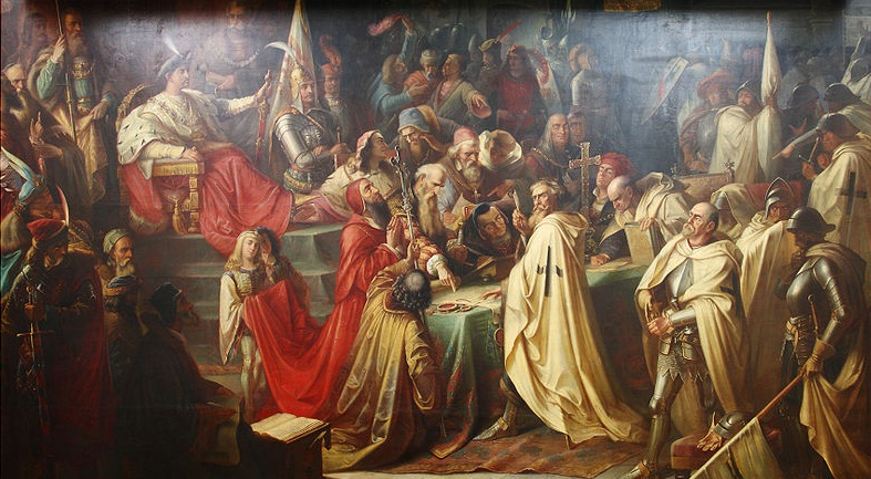 Cropped version of